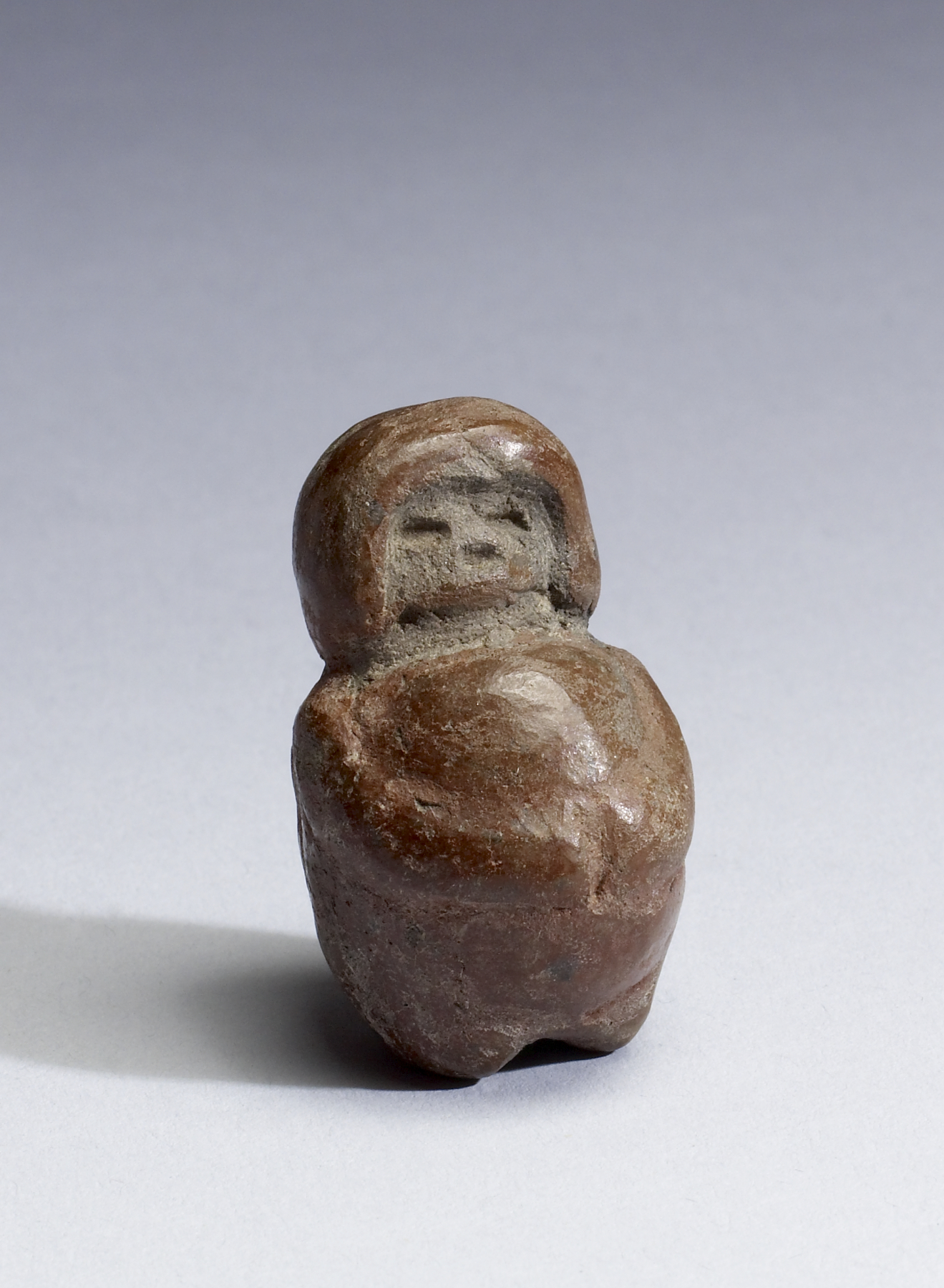 To manufacture this figurine, an artisan took two small clay coils and pressed them together. The simple details of the body contrast with the often elaborate hairstyles. The female figurines are most often found in middens (trash deposits), usually broken in several pieces. Their relative frequency and simple manufacture suggests that they may have been used in fertility rituals and then discarded. Male figures, distinguishable from the females by the presence of a small bulge at the groin, are relatively rare.